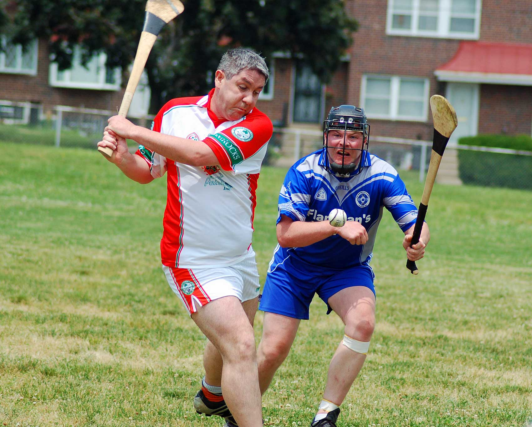 A game of hurling, DC Gaels versus Shamrocks. Taken at the Gaelic Games, Cardinal Dougherty High School field, Philadelphia, USA.Taking a swing